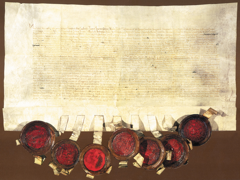 Cetingrad Charter - a document about election of Ferdinand I. of Habsburg as king of Croatia at the parliament session in Cetin on January 1st, 1527